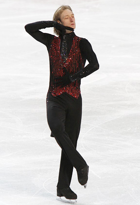 Evgeni Plushenko at the 2010 European Figure Skating Championships.